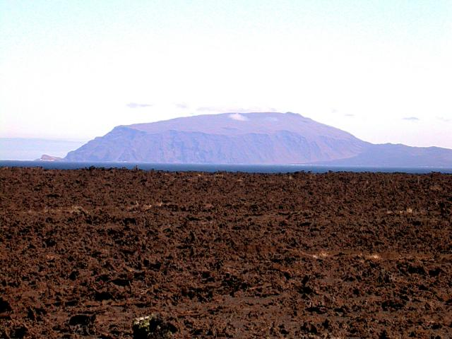 Volcán Ecuador, which straddles the equator at the NW end of Isabela Island, rises beyond a lava flow near Beagle tuff cone on the flanks of Darwin volcano. Ecuador is the smallest of the six large shield volcanoes on Isabela and is broadly breached to the coast on the side opposite this view. No historical eruptions are known; however, the youthful morphology of its most recent lava flows resembles those of very recent flows on other Isabela Island volcanoes. A line of NE-trending fissure-fed vents (right horizon) extends to the SE.